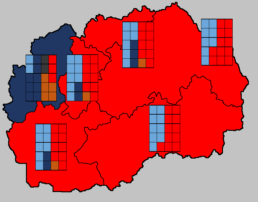 Results of the 2011 Macedonian parliamentary elections by the constituencies